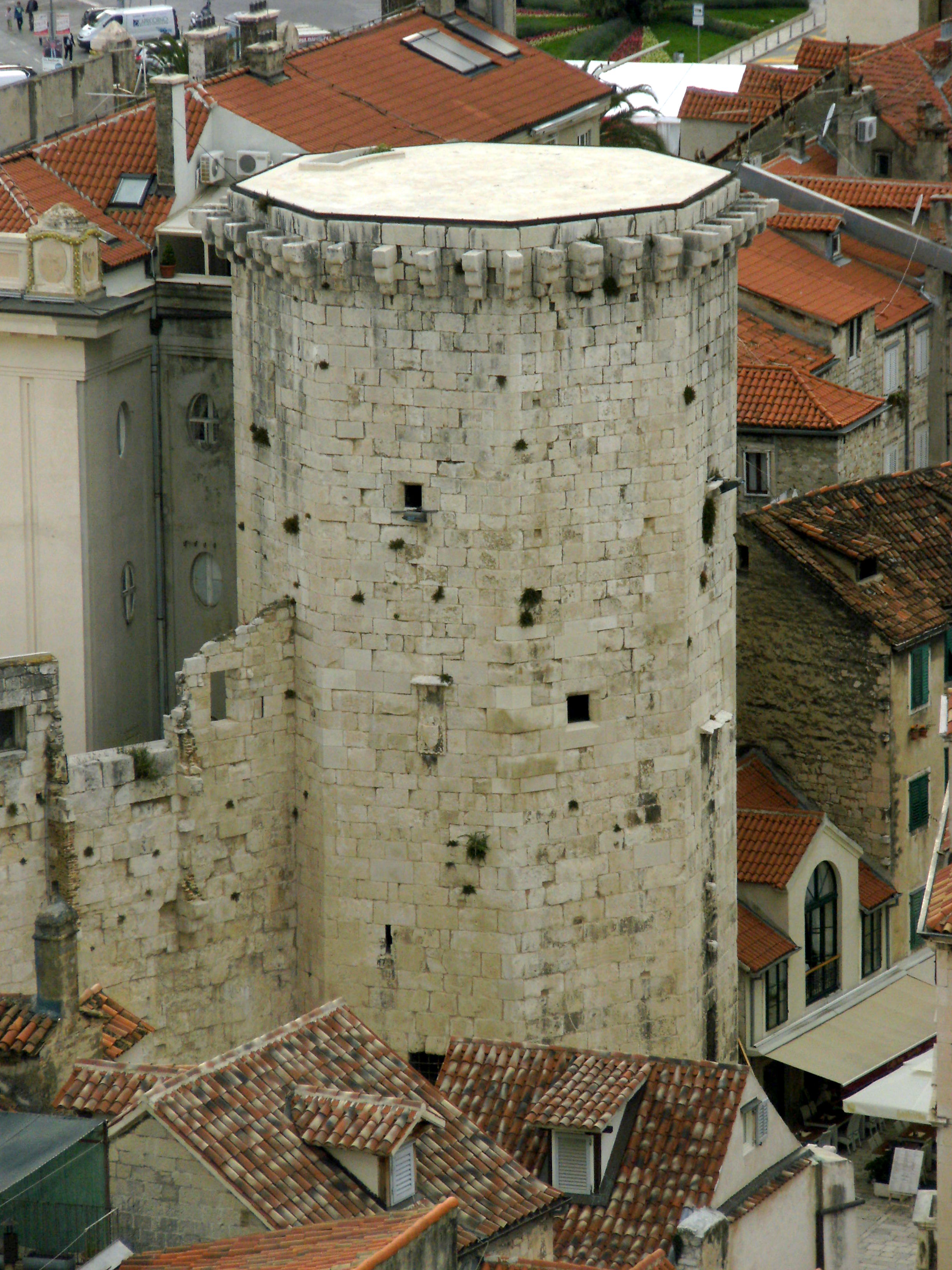 2013-06-03 in Split.